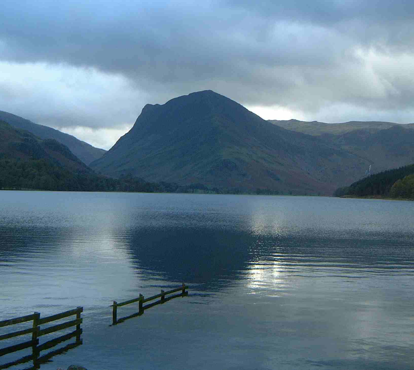 Personal picture taken by Mick Knapton.